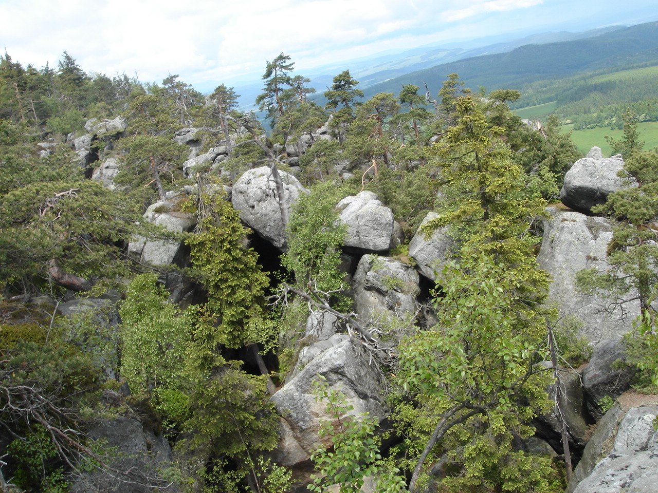 Stołowe Mountains, a view from a slope of Szczeliniec Wielki